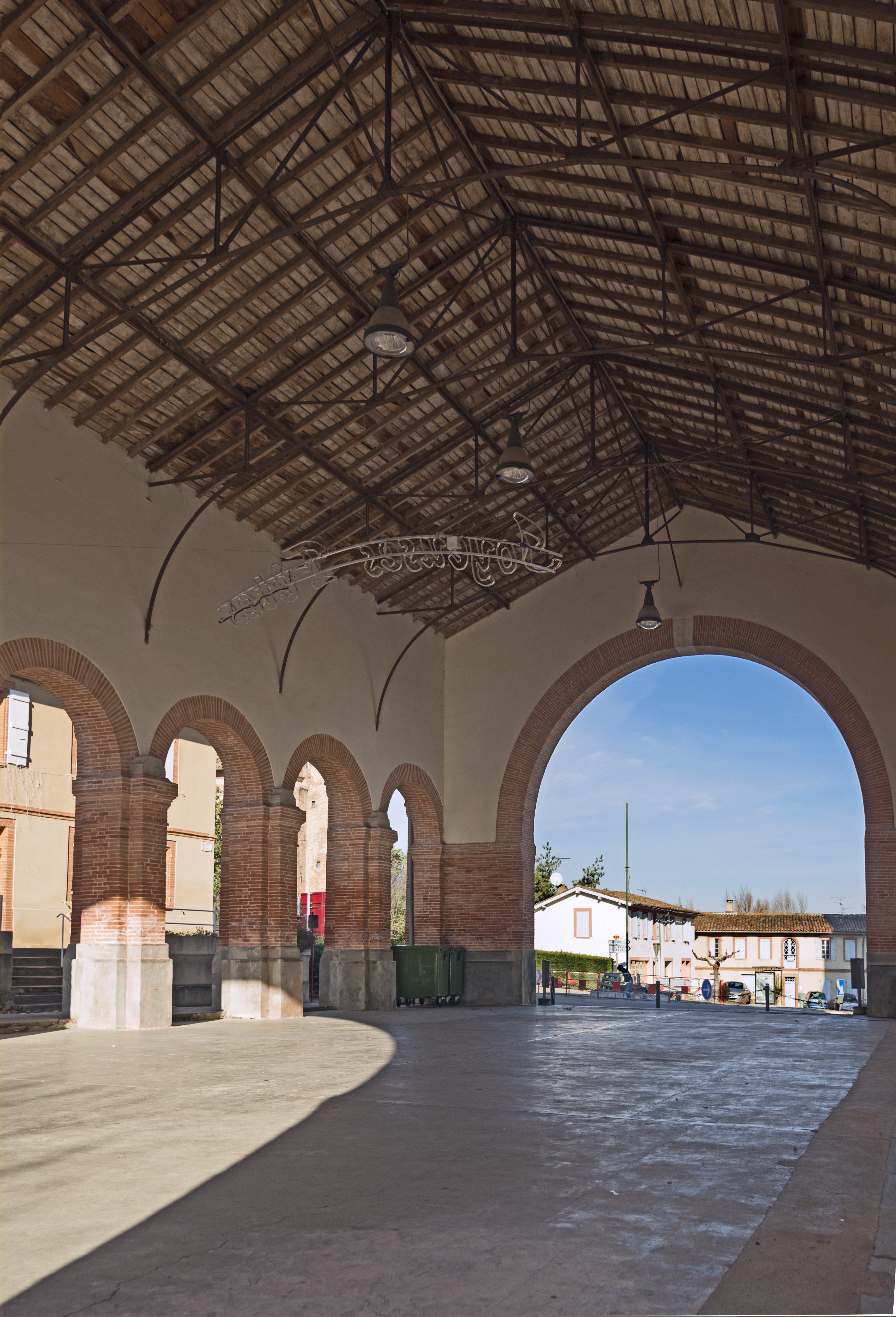 Launac, Haute-Garonne, France. Market hall (1850) interior. Jacques-Jean Esquié architecte.